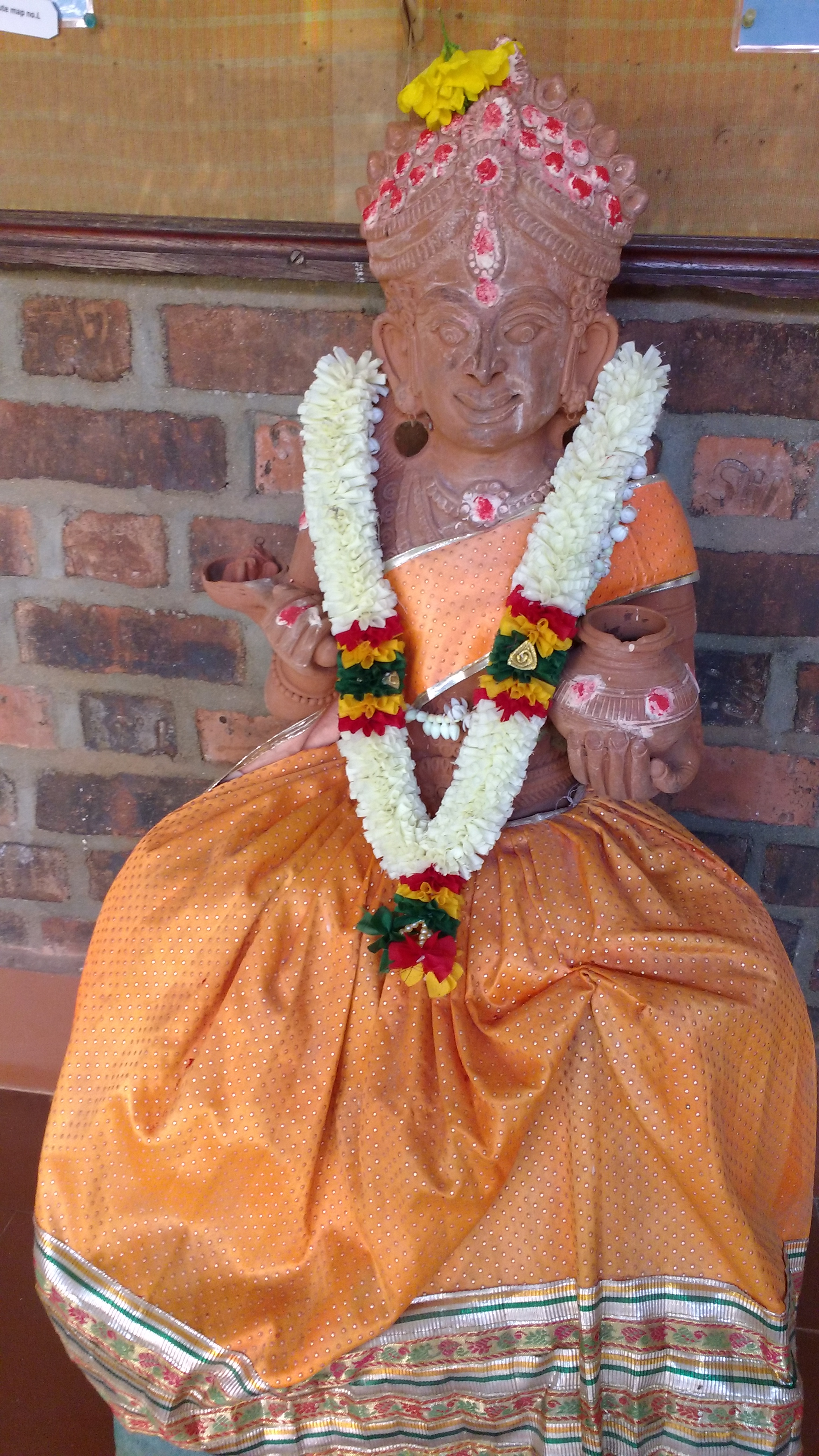 Hndu Goddess Annapoorna Devi